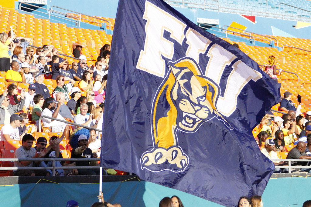 FIU's colors are flown during the seventh annual Shula Bowl